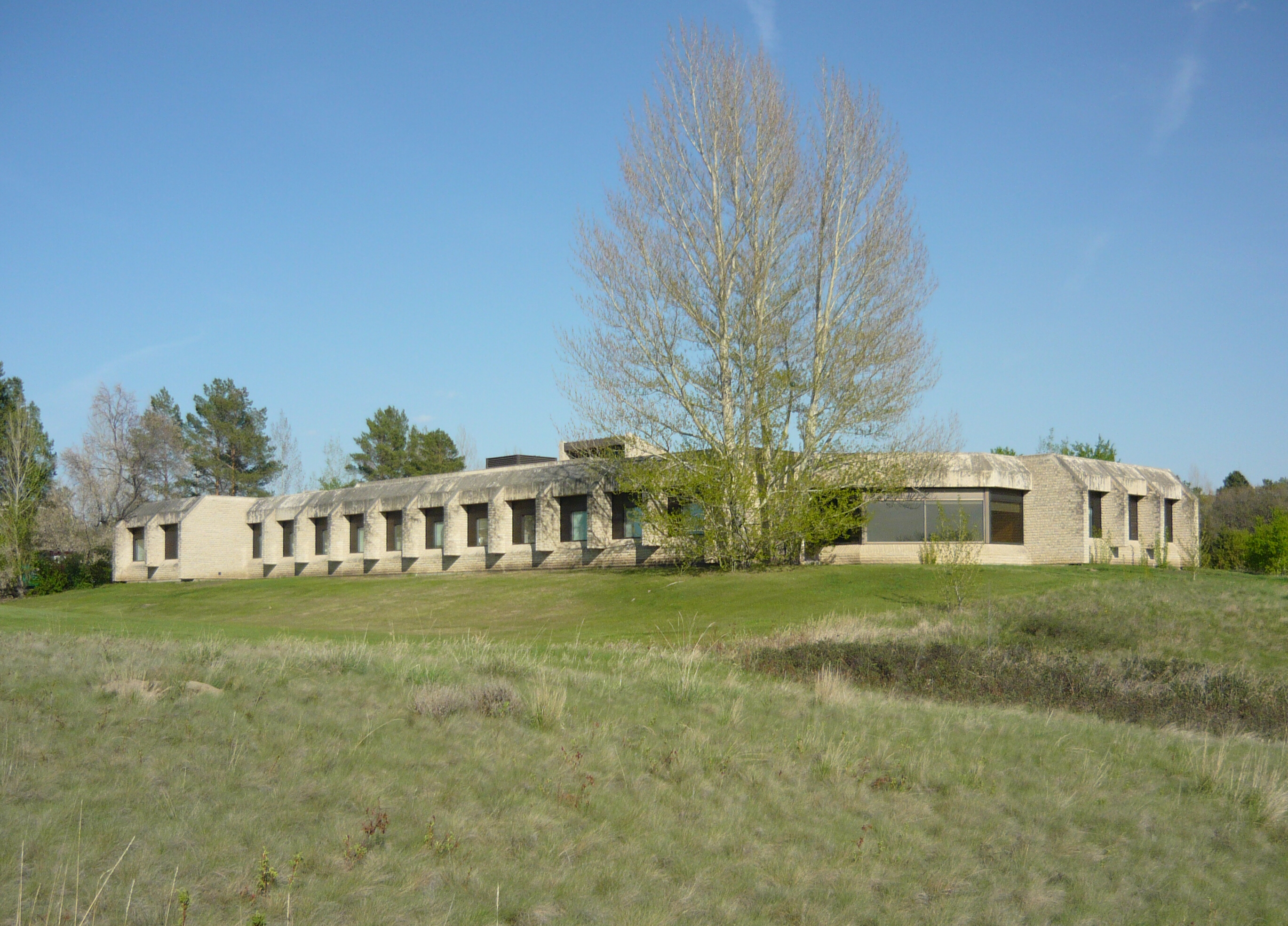 Diefenbaker Canada Centre (Architects: Moore & Taylor, Opened 1980), 101 Diefenbaker Place, University of Saskatchewan, Saskatoon, Saskatchewan, Canada.